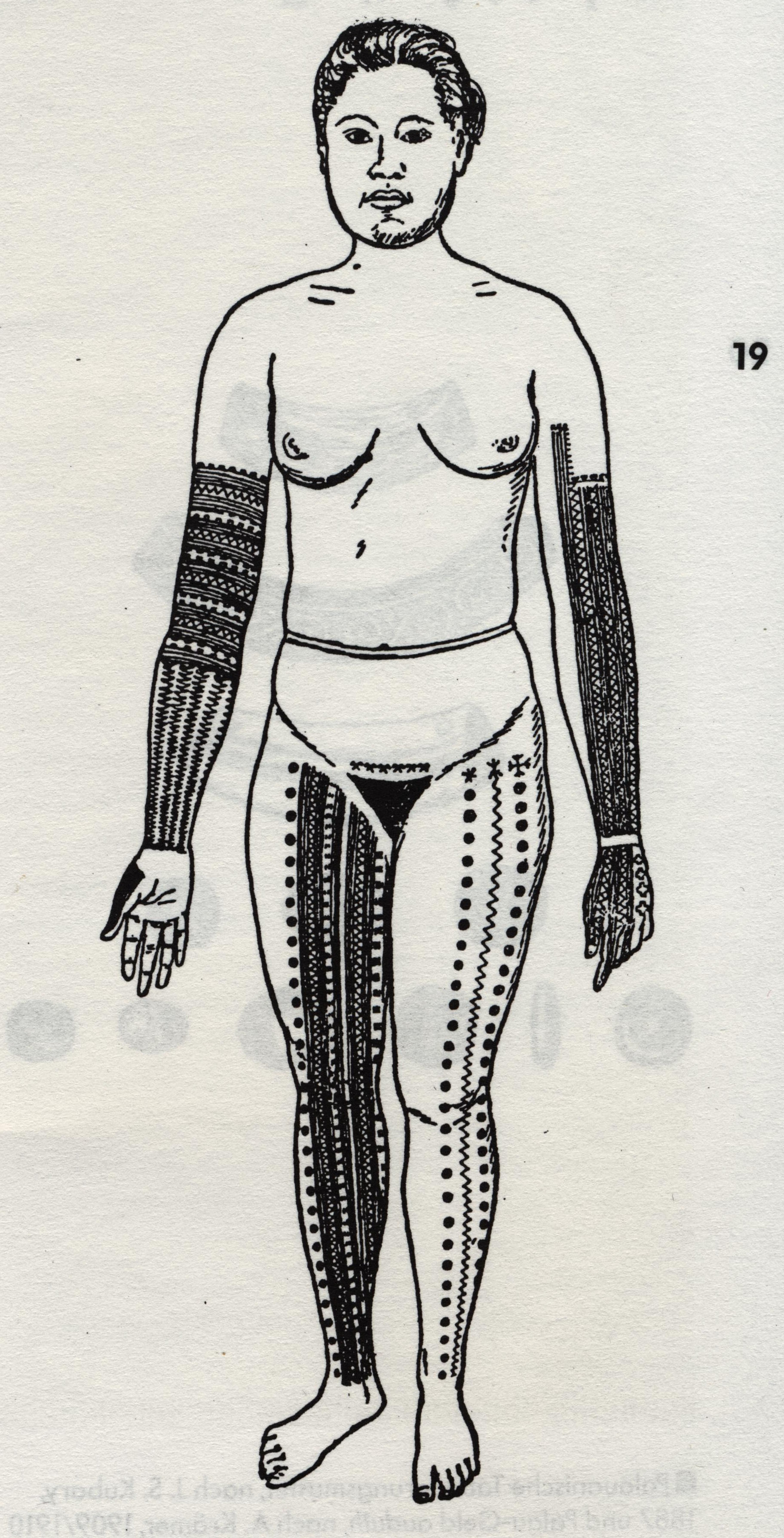 Plan a traditional tattooing women in Palau